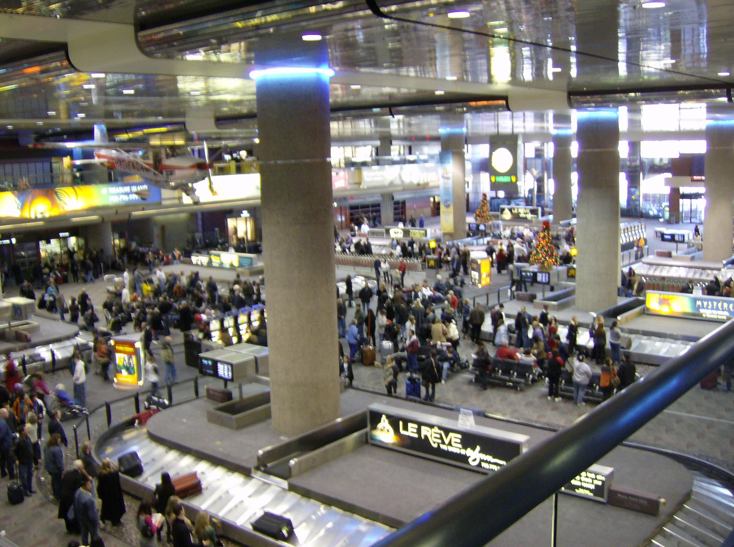 Baggage claim area in Terminal 1 of McCarran International Airport in Paradise, Nevada.